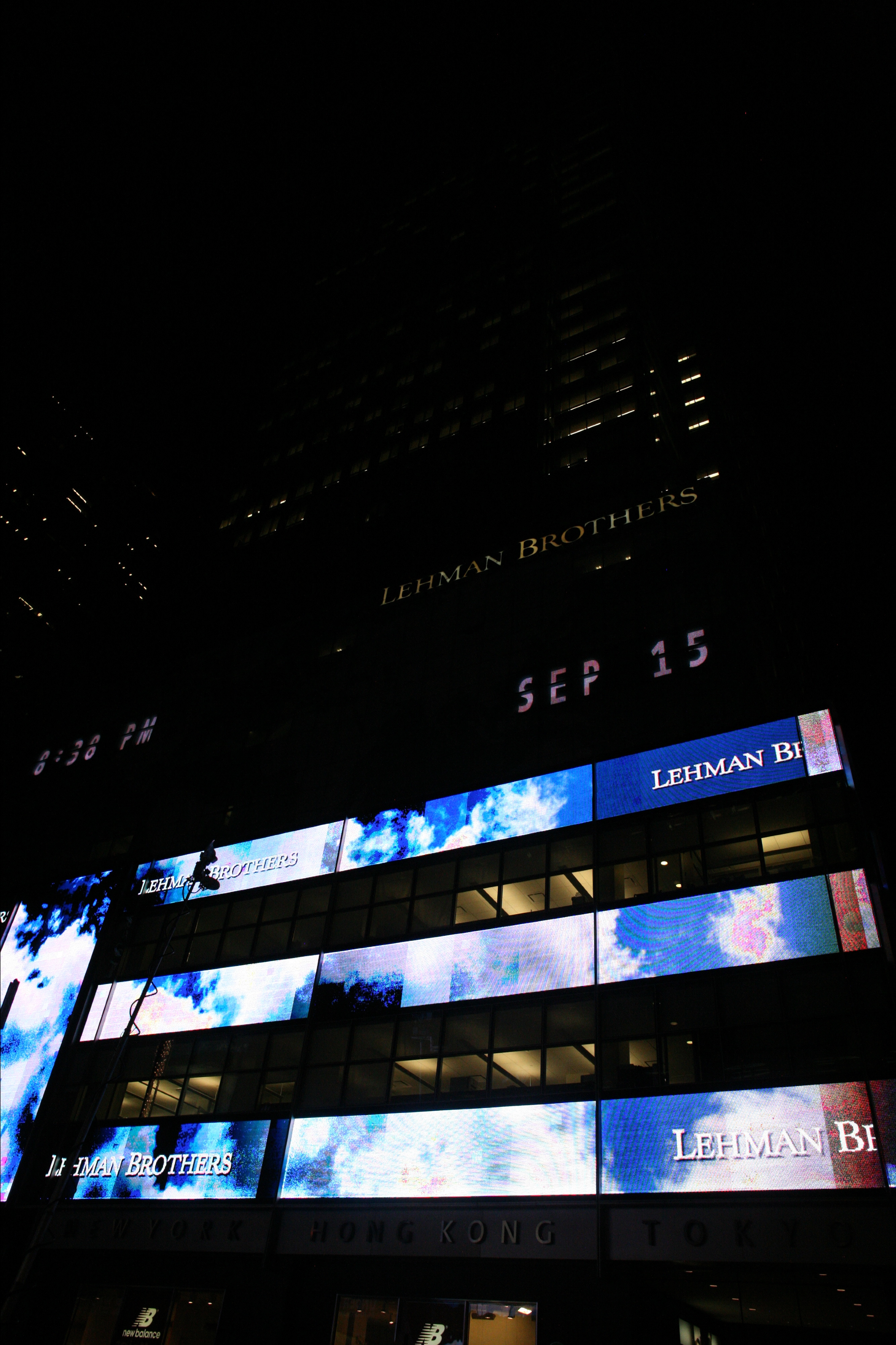 Lehman Brothers headquarters in New York City Image is rotated.